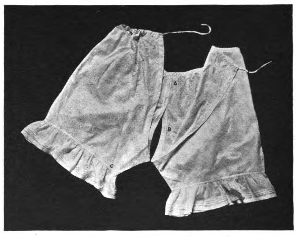 Fig. 45. -- Open Drawers A, Two darts take in the fullness in the front; B, edge of drawers faced with garment bias facing; C, ruffle sewed on with a receiving tuck.